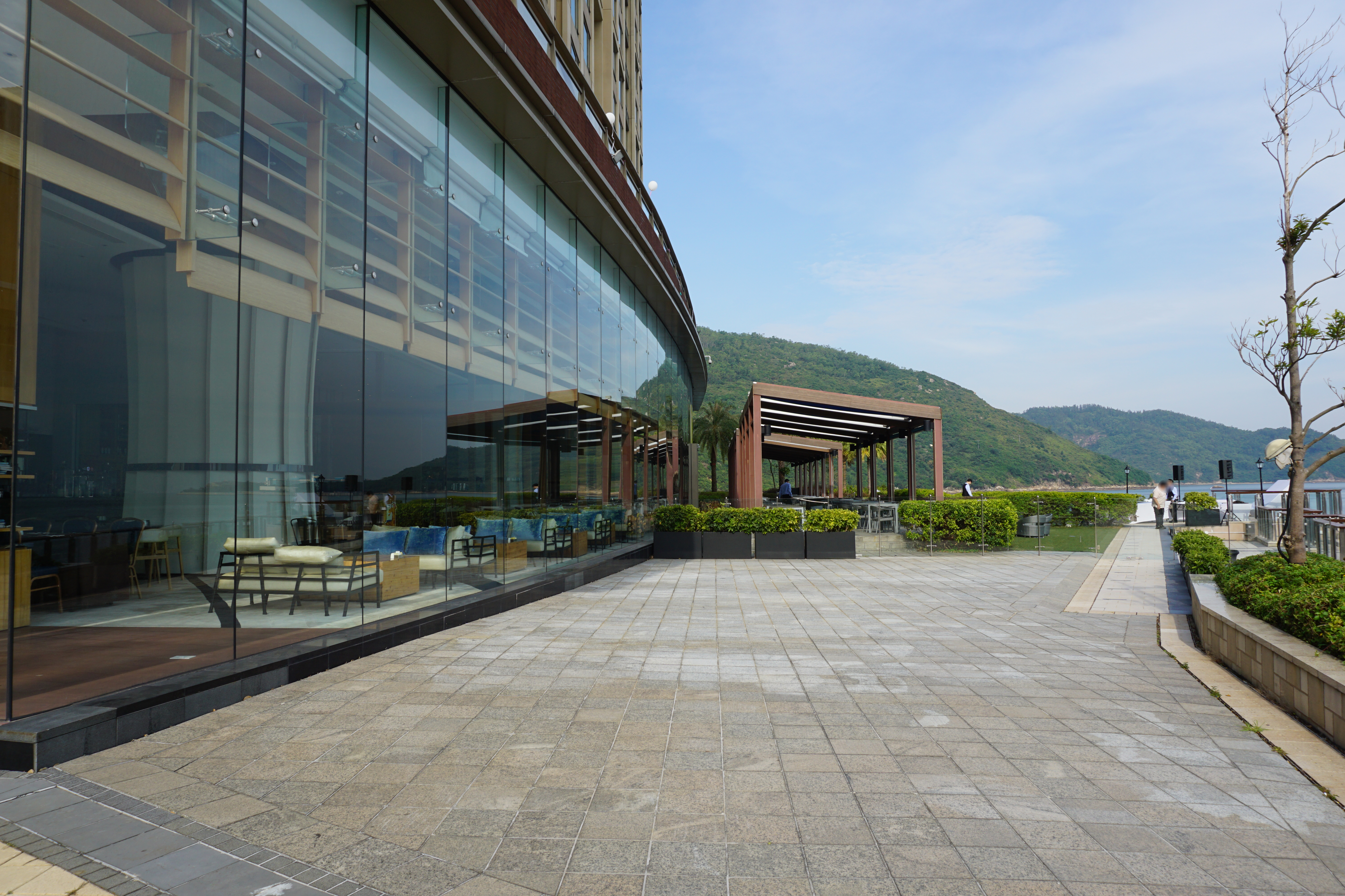 Auberge hotel in Discovery Bay, Hong Kong.